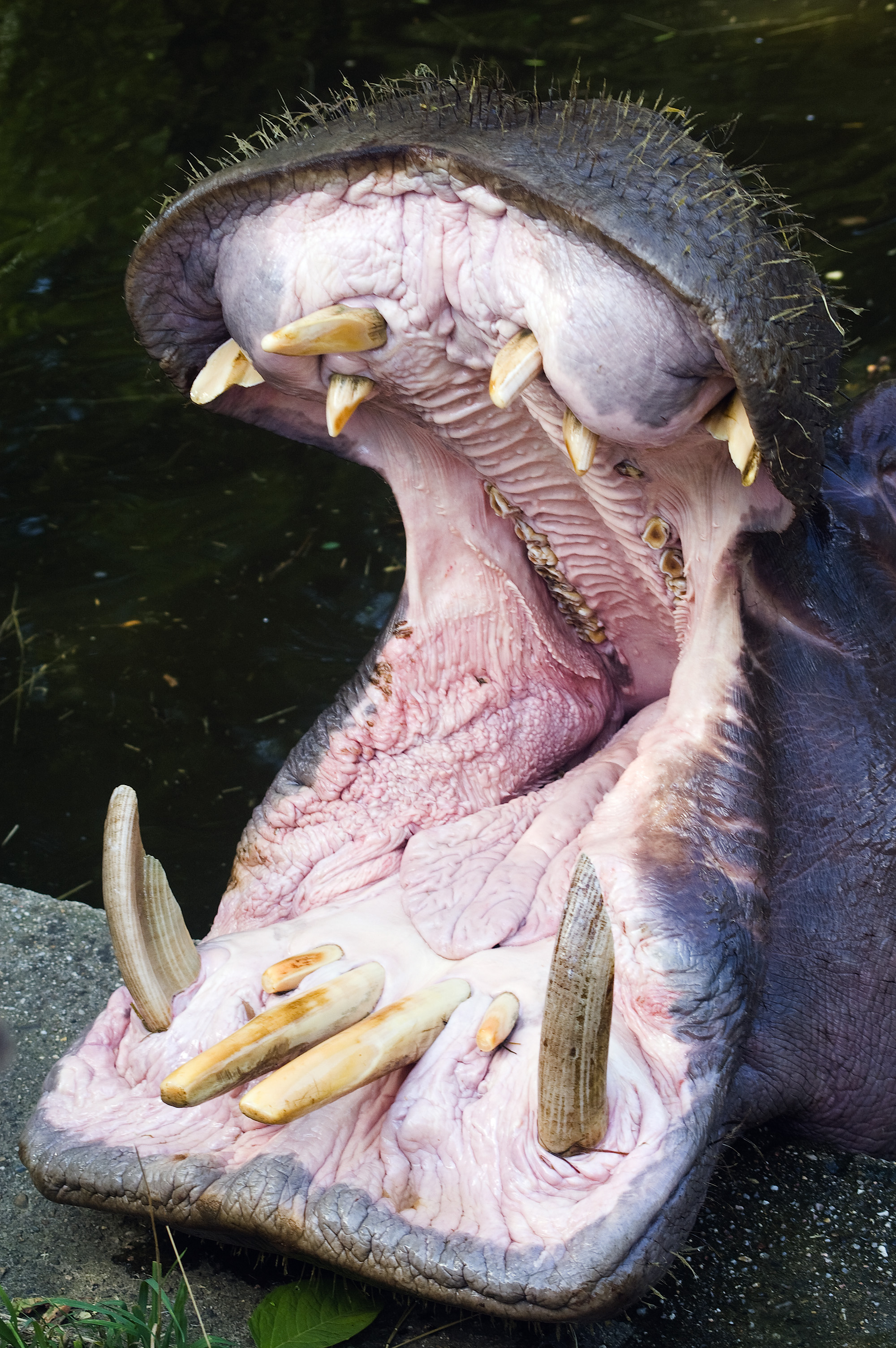 The jaw of a Hippopotamus.